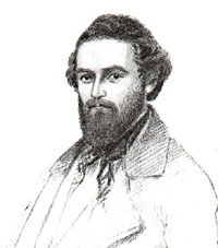 Portrait of Italian composer Jacopo Foroni (1825-1858)